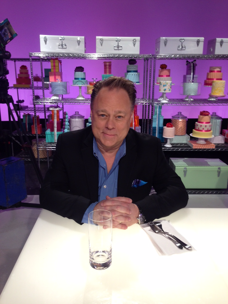 Headshot of Kelly Asbury